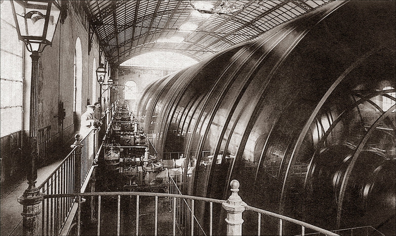 Marly Machines. Hydraulic Machine of Dufrayer running en 1859.